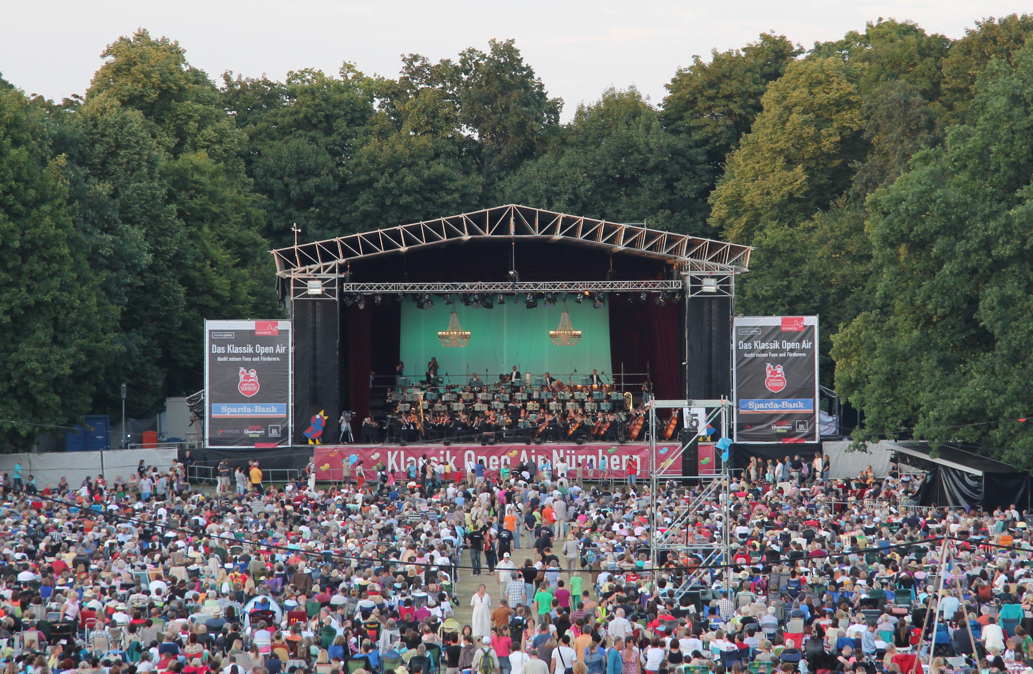 Klassik Open Air 2012, Nuremberg, stage